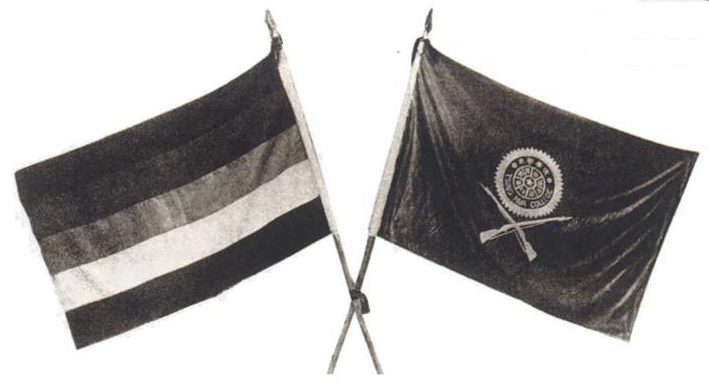 The Old Flag of Tsinghua, 1910s